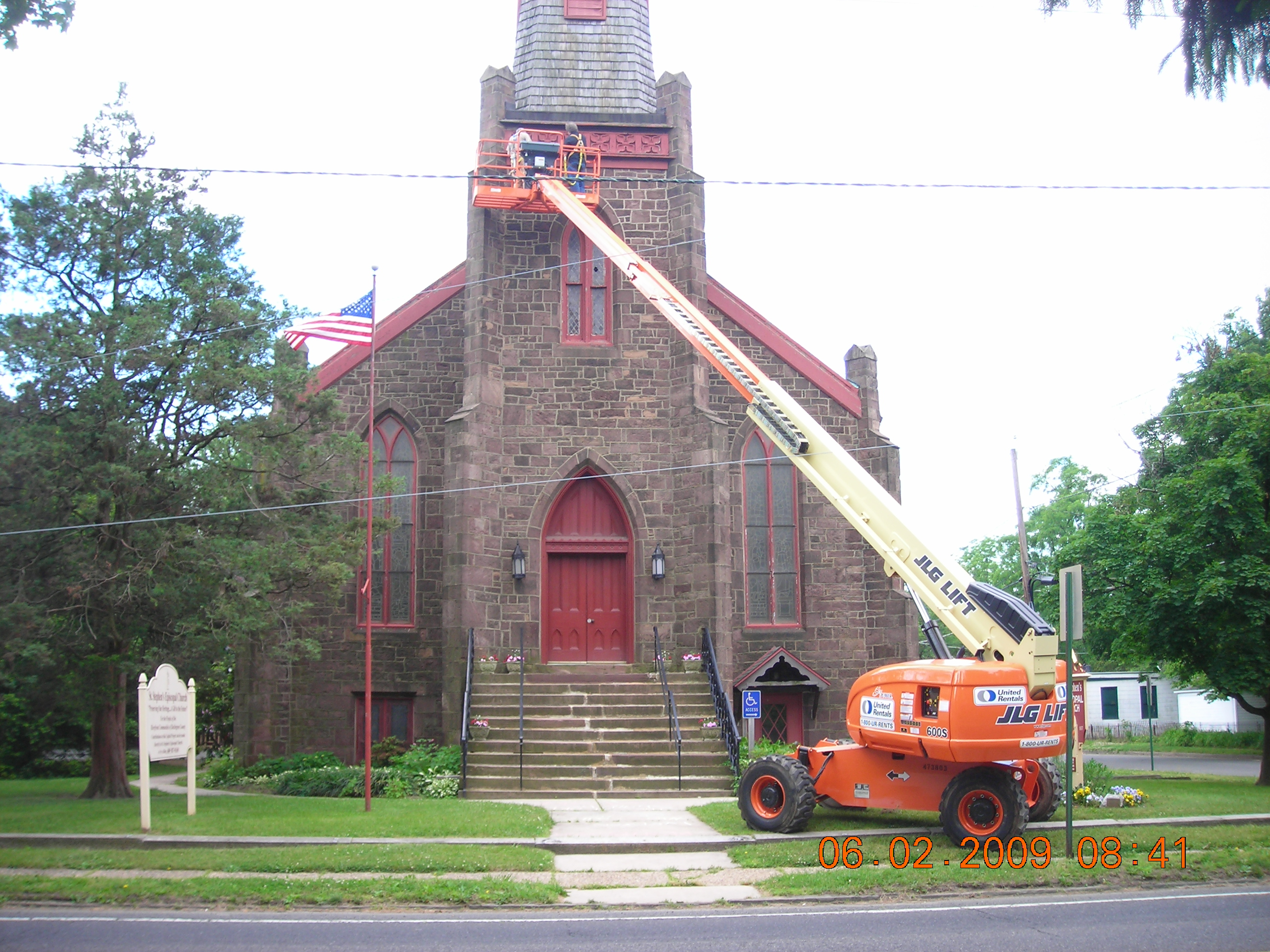 Cranework at St. Stephen's